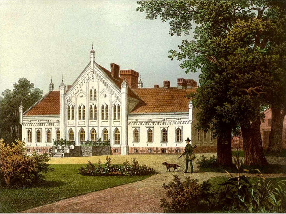 Manor in Jabłonka